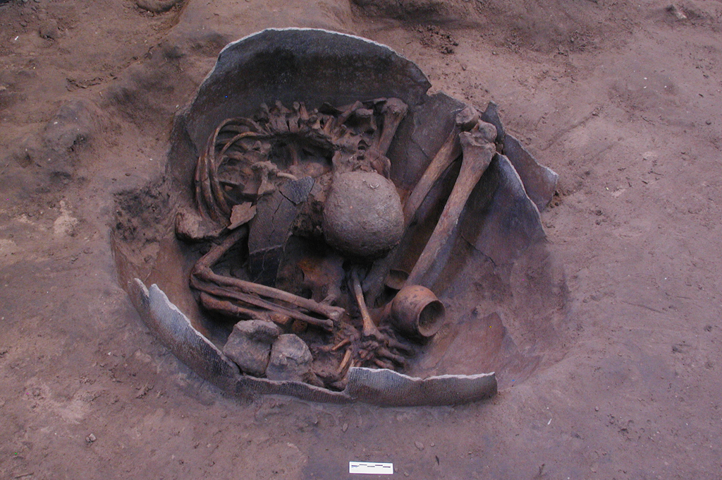 ban non wat